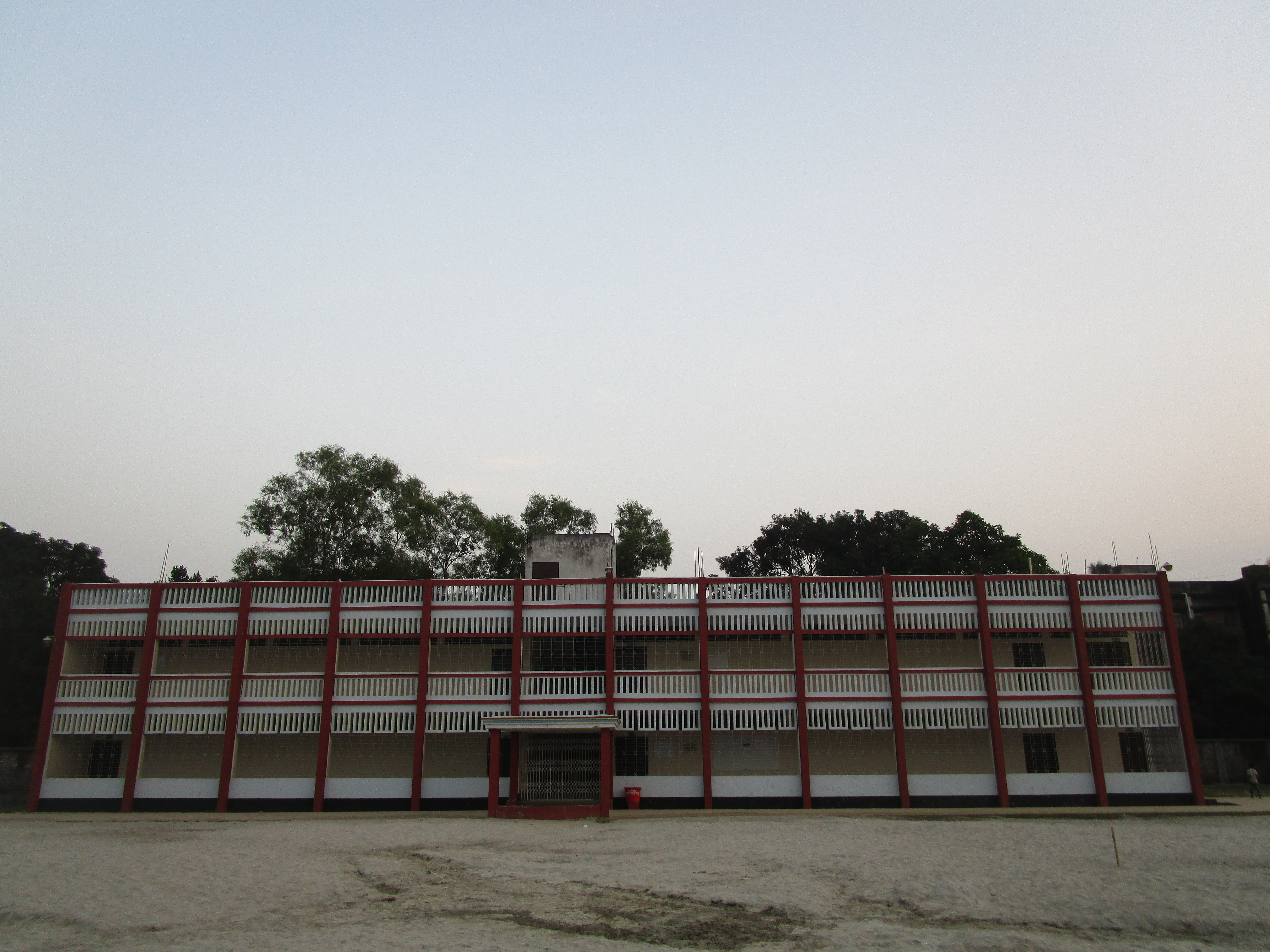 Agricultural university college building at BAU